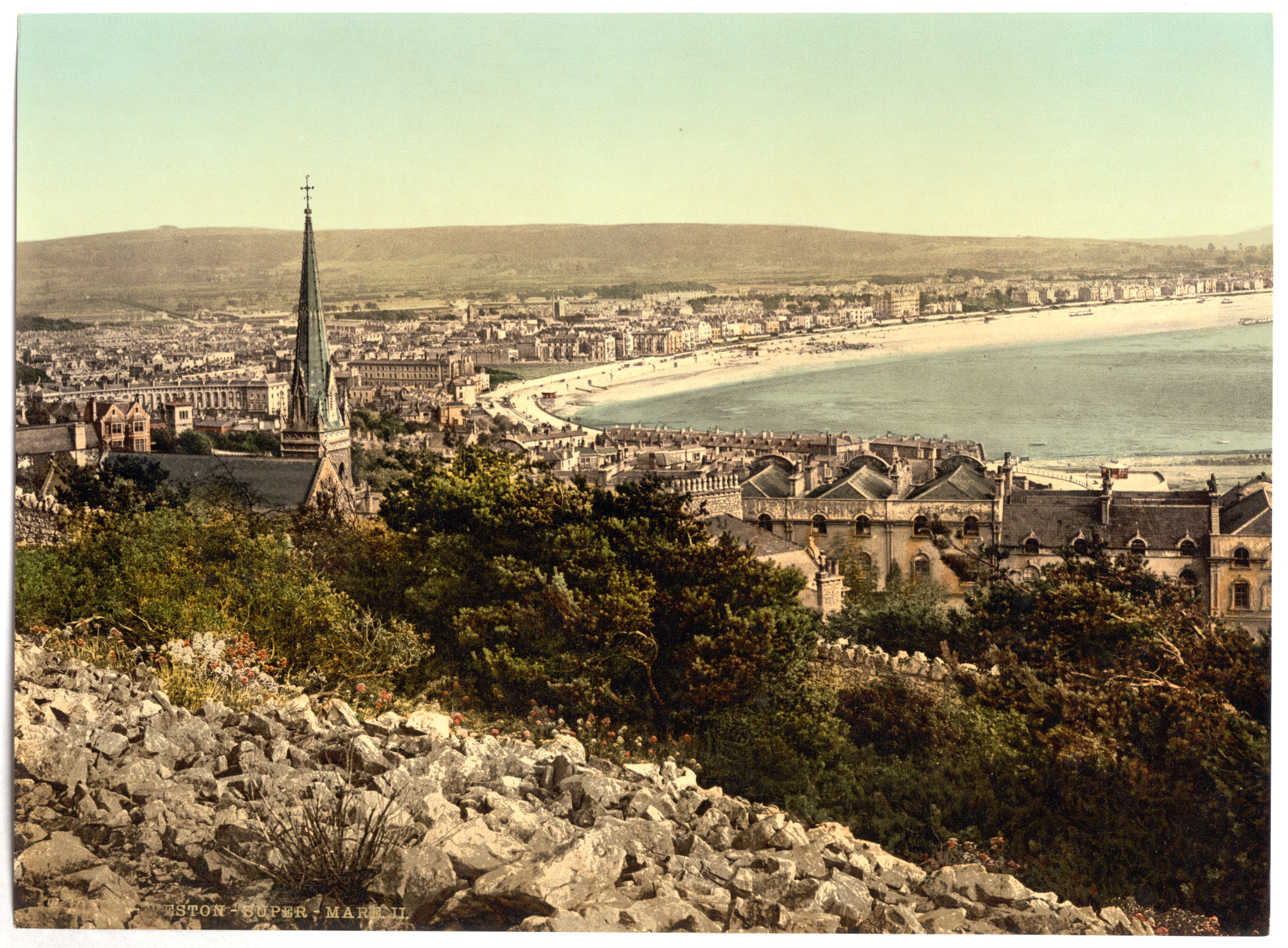 Photochrom of Weston-super-Mare.